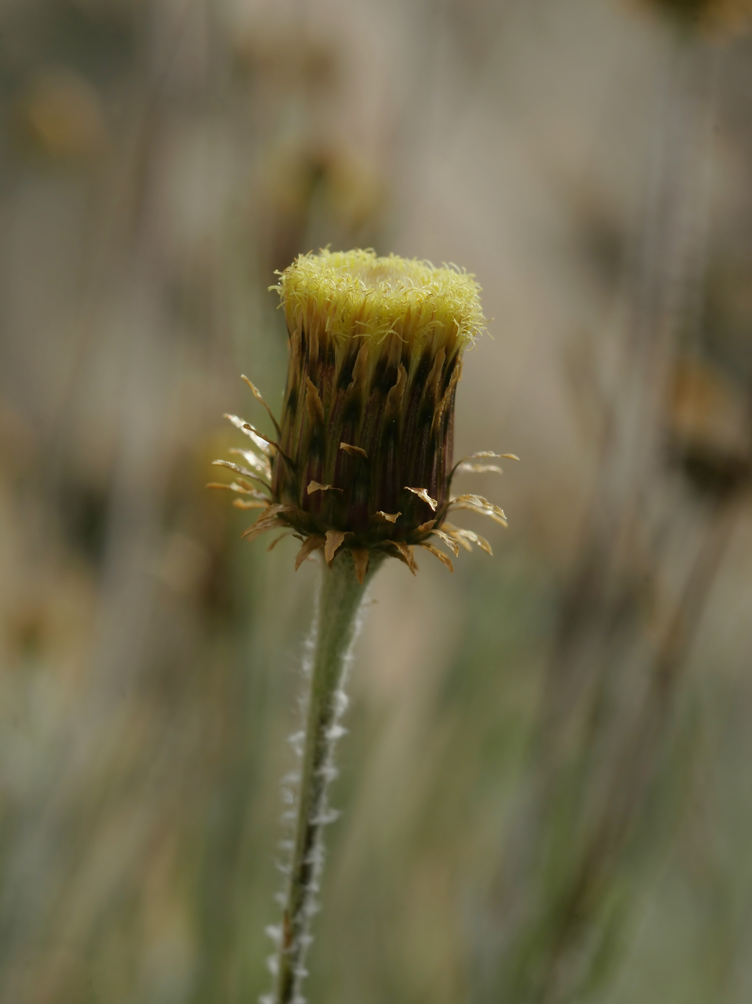 close to el Perelló, Catalonia, Spain